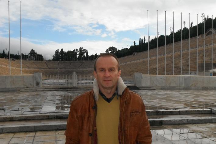 Dragan Djokanovic at the Panathenaic Stadium Athens